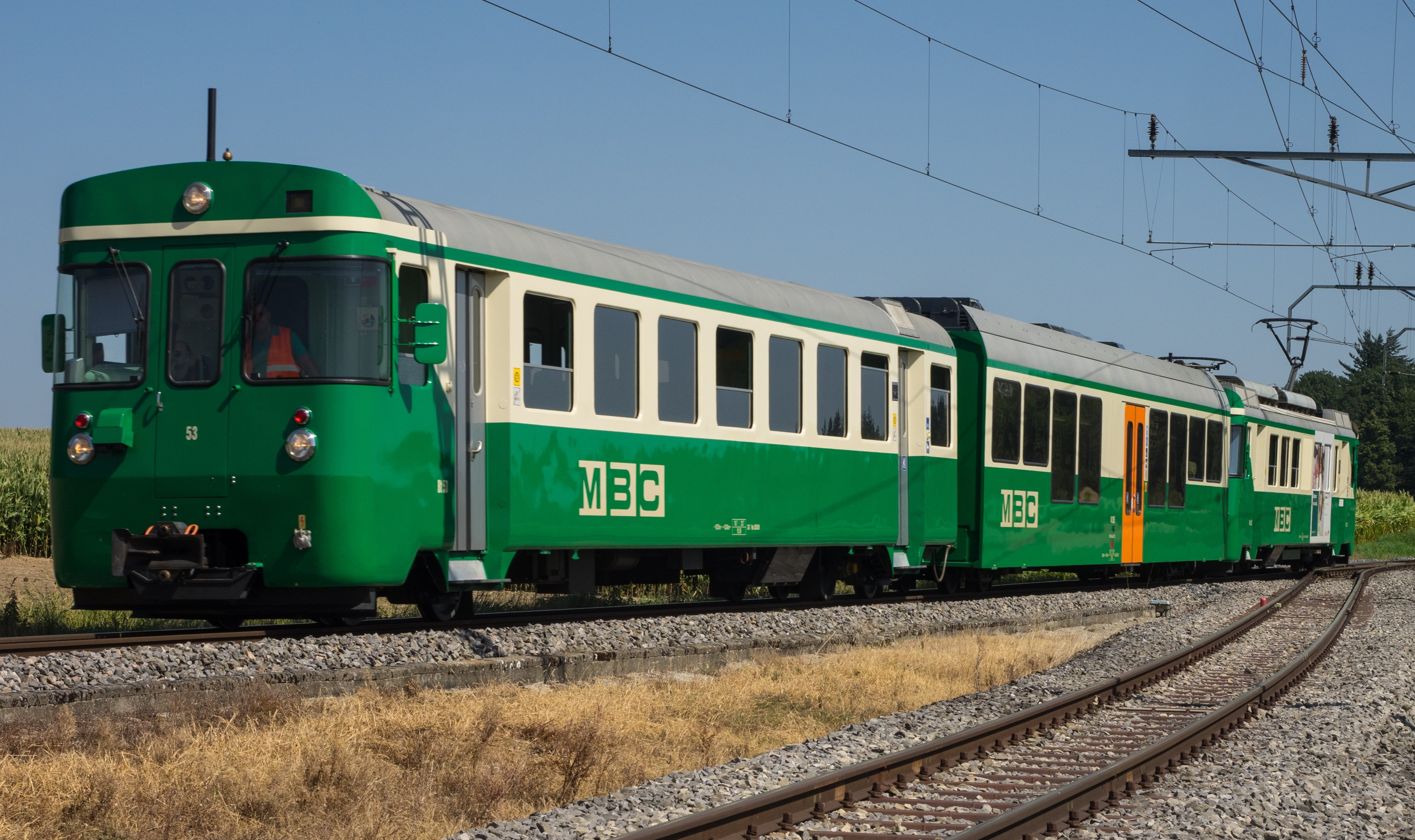 Bière 31.08.2015